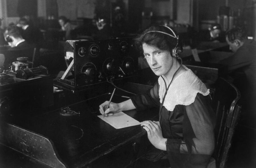 Helen Campbell, the first wireless operator recruited by the National League for Women's Service, a World War I government program to use women to fill jobs vacated by men drafted into the military. Photograph shows her with wireless telegraphy equipment and was taken on 8 May 1917, according to duplicate version at